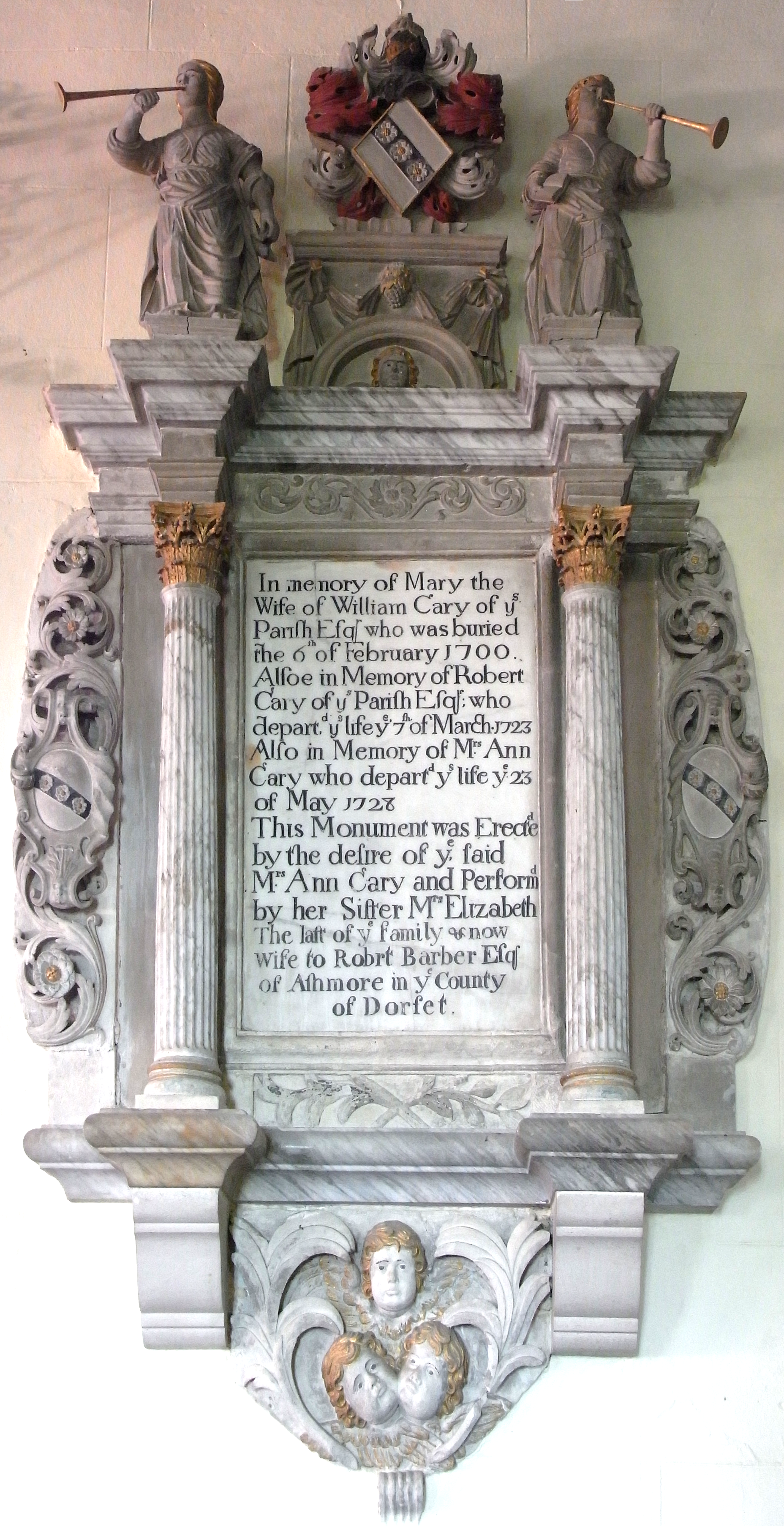 Mural monument in All Saints Church, Clovelly, Devon, to Mary Mansell (d.1700), daughter of Thomas Mansell of Briton Ferry, Glamorgan, and second wife of William III Cary (c.1661-1710), of Clovelly, twice Member of Parliament for Okehampton in Devon 1685-1687 and 1689-1695 and also for Launceston in Cornwall 1695-1710. Also to her children Robert Cary (d.1723) and Ann Cary (d.1728), whose surviving sister, Elizabeth Cary (d.1738), the last of the Cary family of Clovelly, erected the monument. On top within a lozenge (the appropriate shape of escutcheon for a female) are shown the arms of Cary: Argent, on a bend sable three roses of the field, repeated on either side lower down in oval cartouches. At the botton are shown three putti-like faces. Inscription: "In memory of Mary the wife of William Cary of ys parish, Esqr who was buried the 6th of February 1700. Also in memory of Robert Cary of ys parish Esqr who departd ys life ye 7th of March 1723. Als in memory of Mrs Ann Cary who departd ys life ye 23 of May 1728. This monument was erected by the desire of ye said Mrs Ann Cary and performd by her sister Mrs Elizabeth the last of ye family & now wife to Rob'rt Barber Esq of Ashmore in ye county of Dorset"